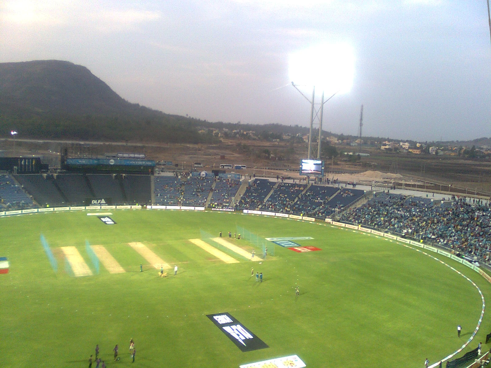 A view of the Subroto Roy Sahara Stadium taken from the South Stand